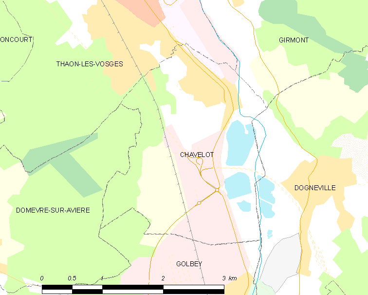 Map of French municipality Chavelot